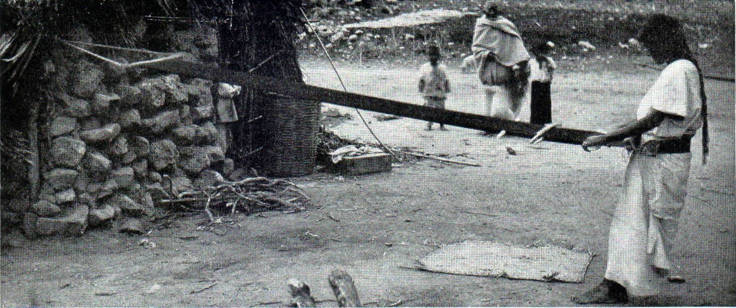 WEAVING THE SERAPE IN MEXICO. The serape is a shawl or blanket worn as an outside garment by the Mexican Indians. It is woven in strips, each strip of a different color, and joined together in one whole. The weaving is of the simplest kind, nothing which could be called a loom being used, and yet the process is in principle the same as that of the modern loom. As can be seen in the picture, the warp threads are held taut by the weight of the woman's body thrown on the broad belt surrounding her waist. She has just shot the weft and is pulling it up close.